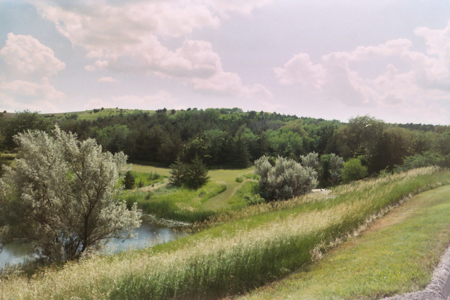 Niobrara State park